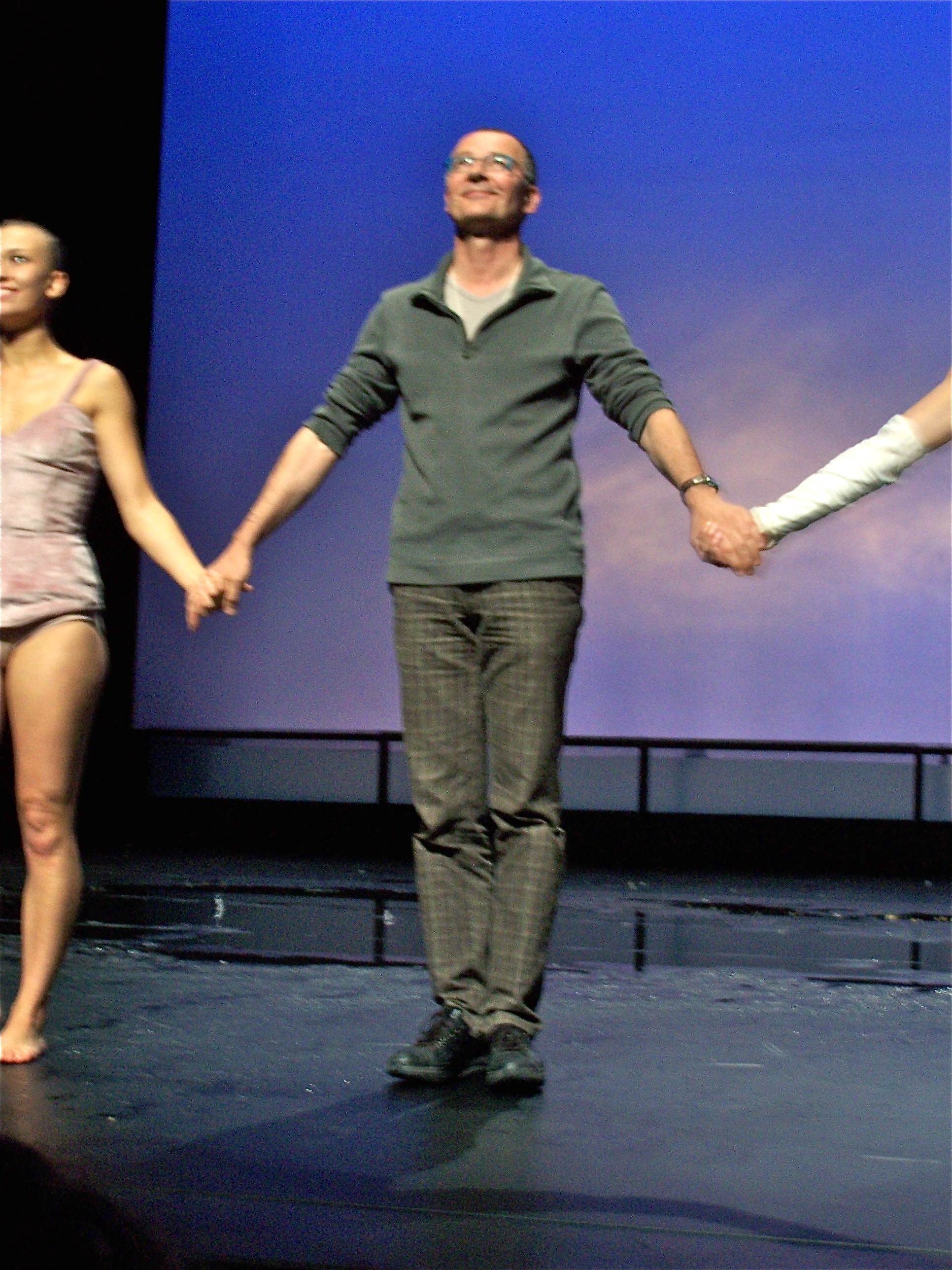 French choreographer Luc Petton at the end of his ballet entitled Swan at théâtre de Chaillot in Paris